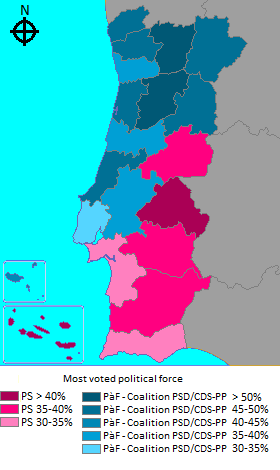 Results of the Portuguese parliamentary elections, 2015